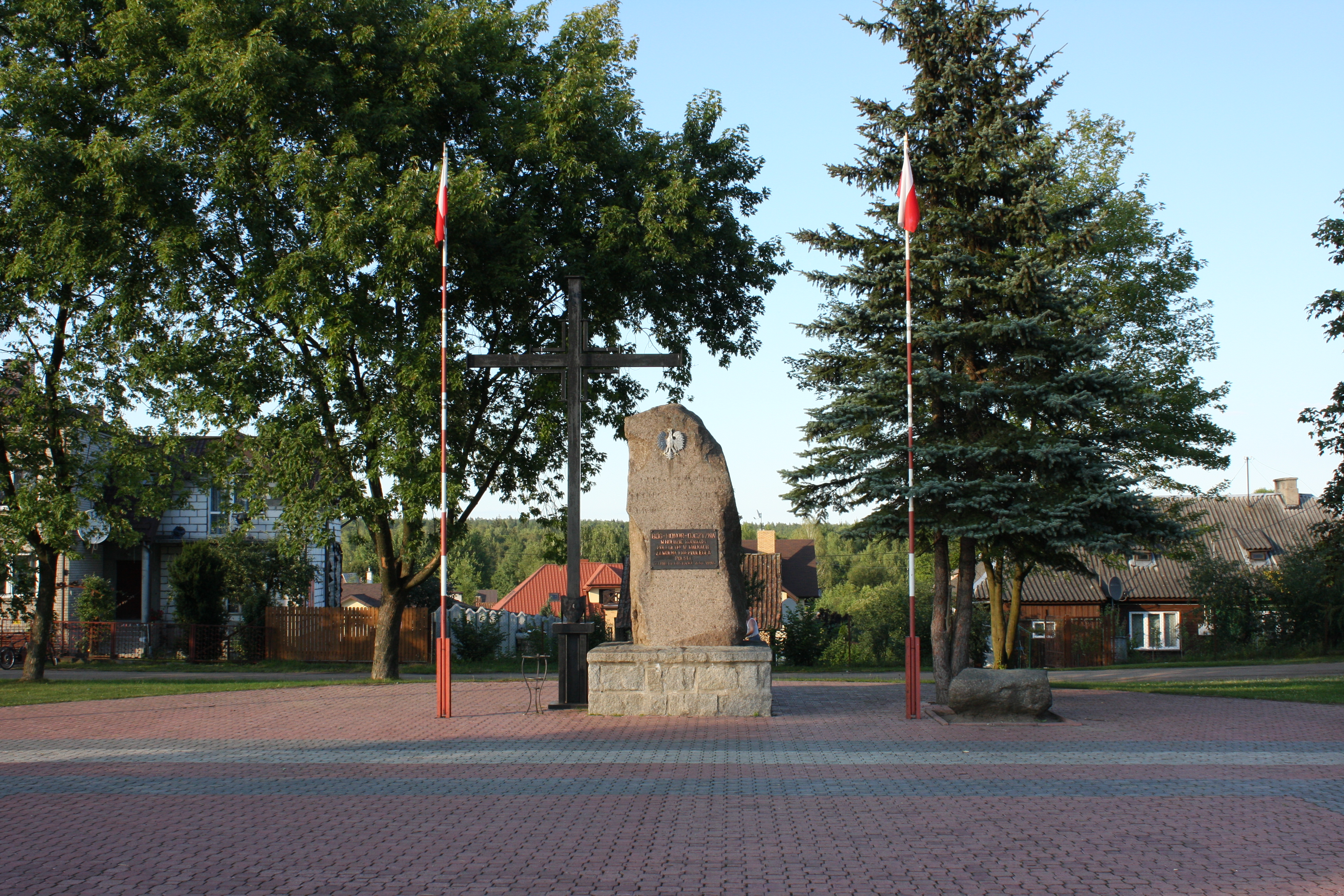 Monument to compatriots fell in fights for free and independent Poland (located in Czarna Białostocka).